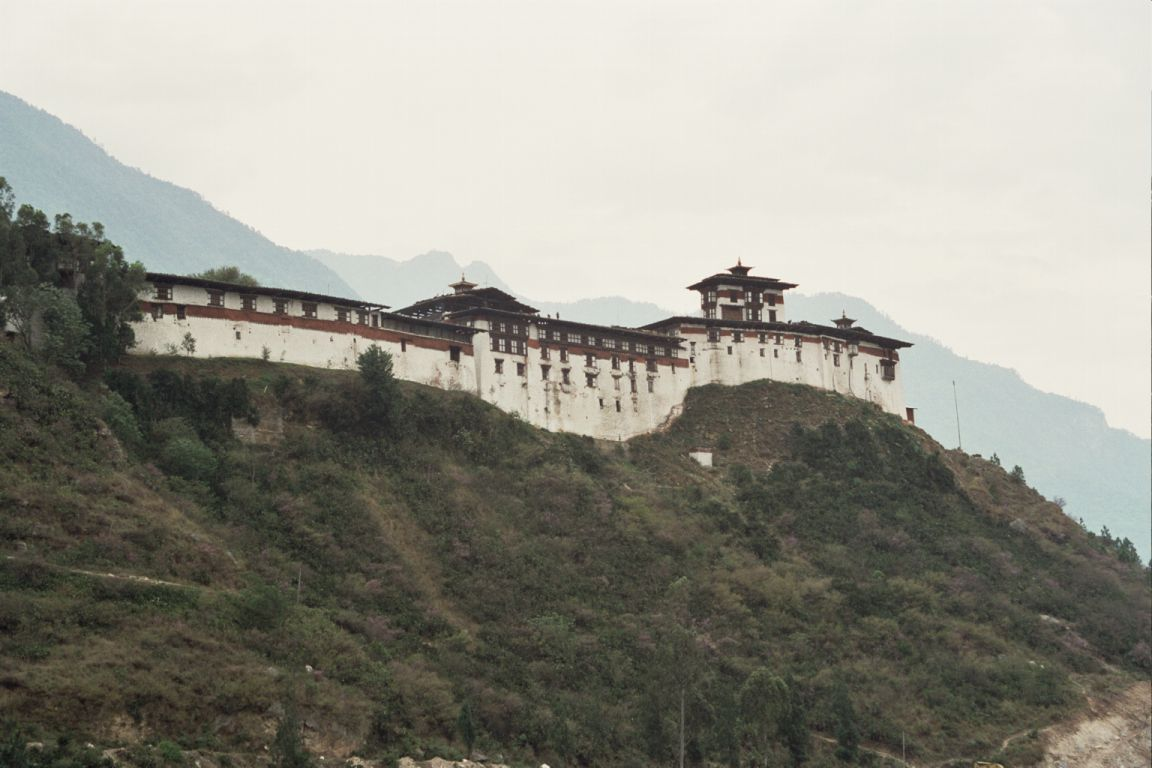 Wangdue Phodrang Dzong (Dzong architecture) in Bhutan Copyright William L. Devanney, May 2002.